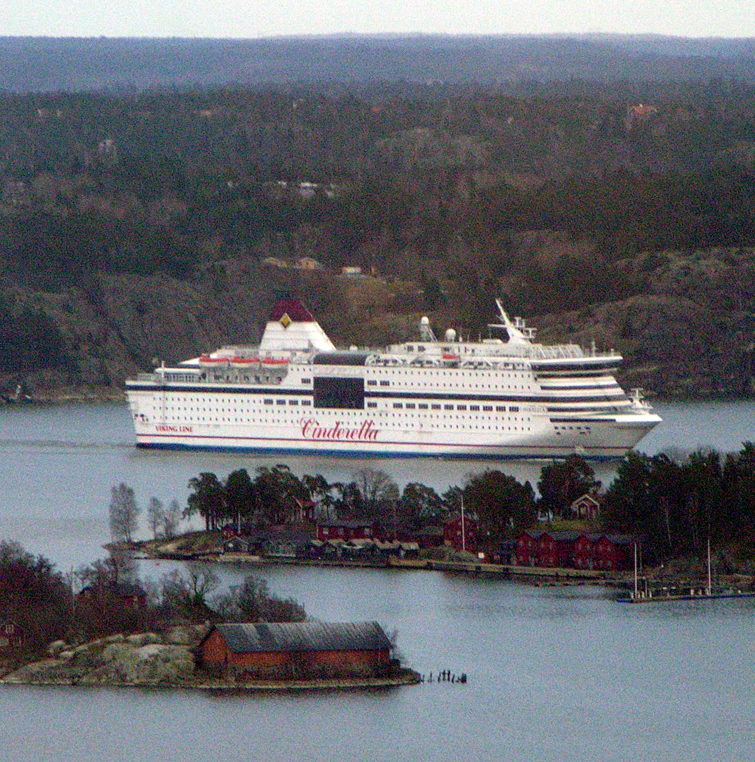 Viking Line's cruise ship M/S Viking Cinderella, seen from Stockholm's television tower Kaknästornet as it navigates the passage between Nacka, on the mainland, and the island of Stora Fjäderholmen, in the inner Stockholm archipelago. The island nearest to the camera is Ängsholmen.